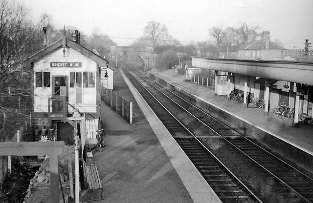 Bricket Wood Station. View NE, towards St Alban's; ex-LNW Watford Jct. - St Alban's (Abbey) branch.